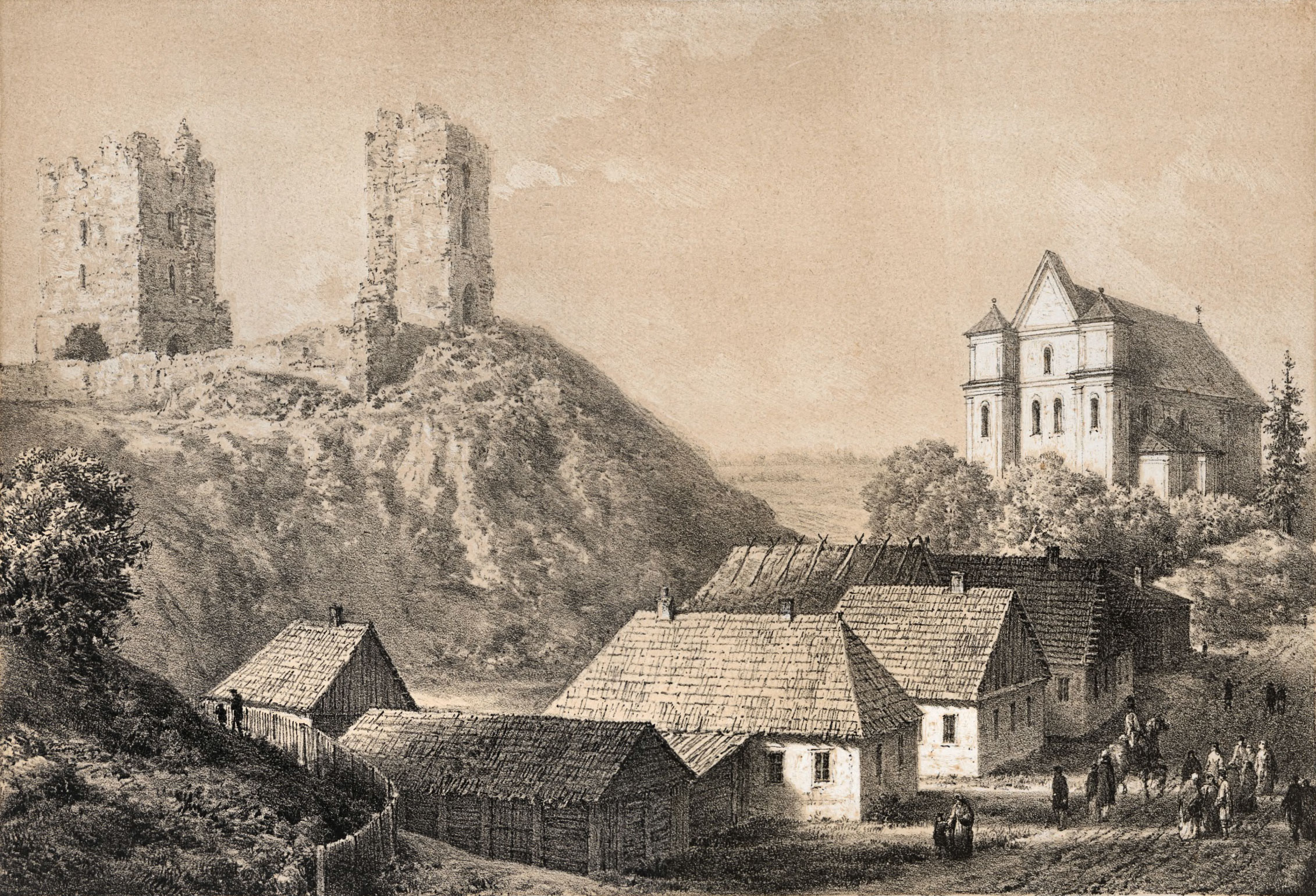 Navahradak, N. Orda